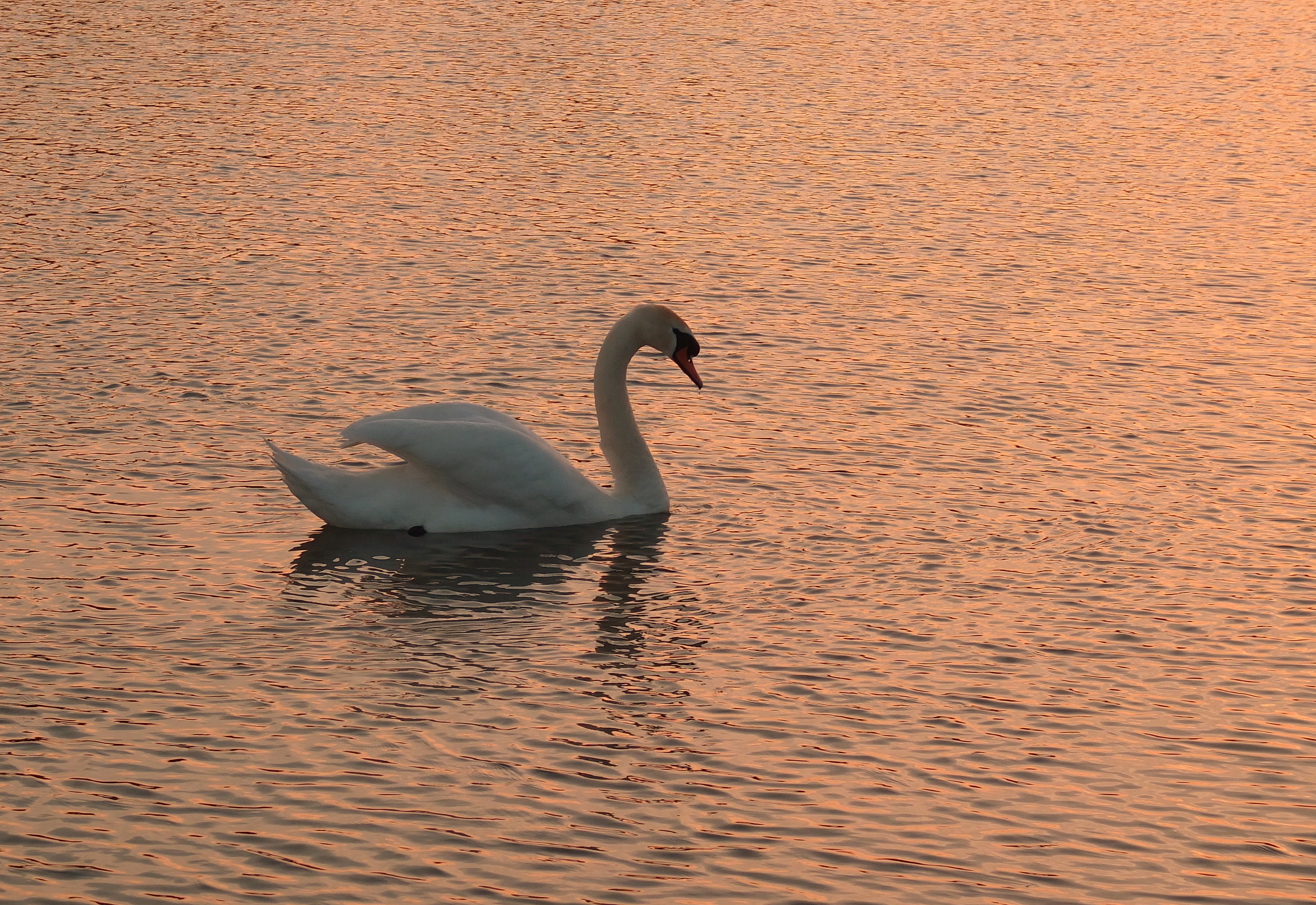 A swan glides gracefully across the lake in the last of the evening sun.............